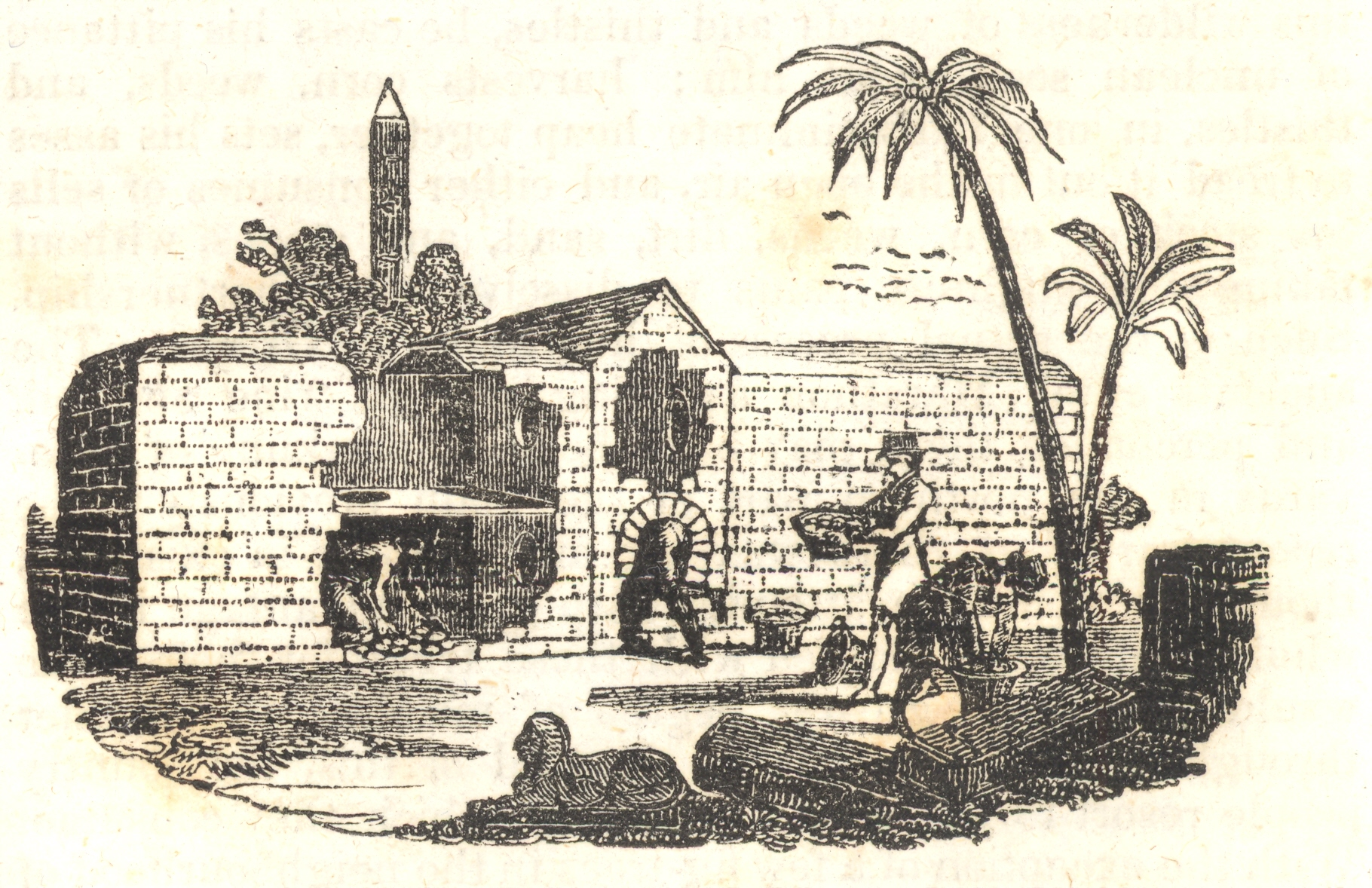 "Egyptian Egg-oven." Published in "The Penny Magazine", Volume II, Number 87, August 10, 1833.